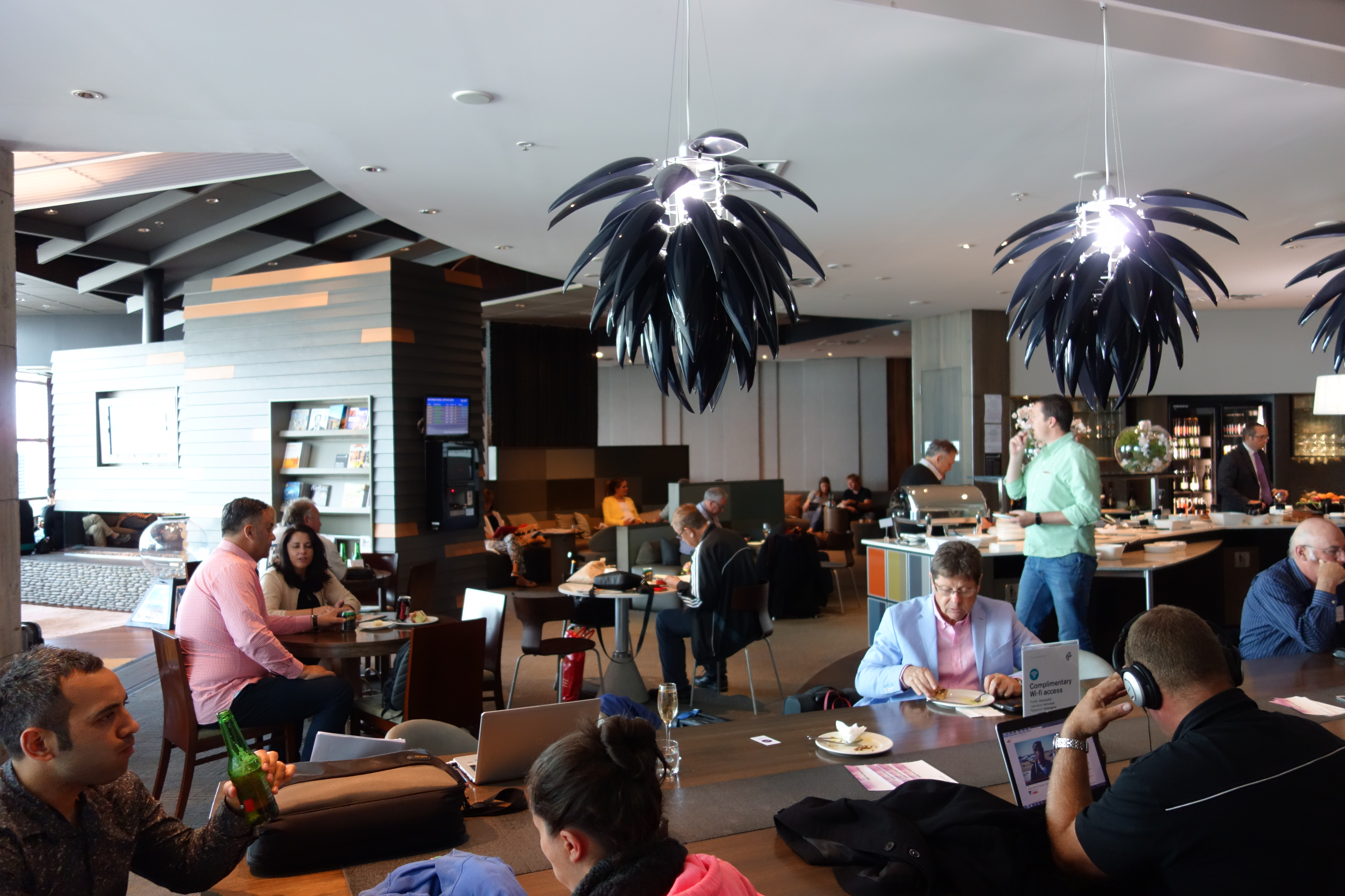 Koru Club in Christchurch in the international part of the airport.